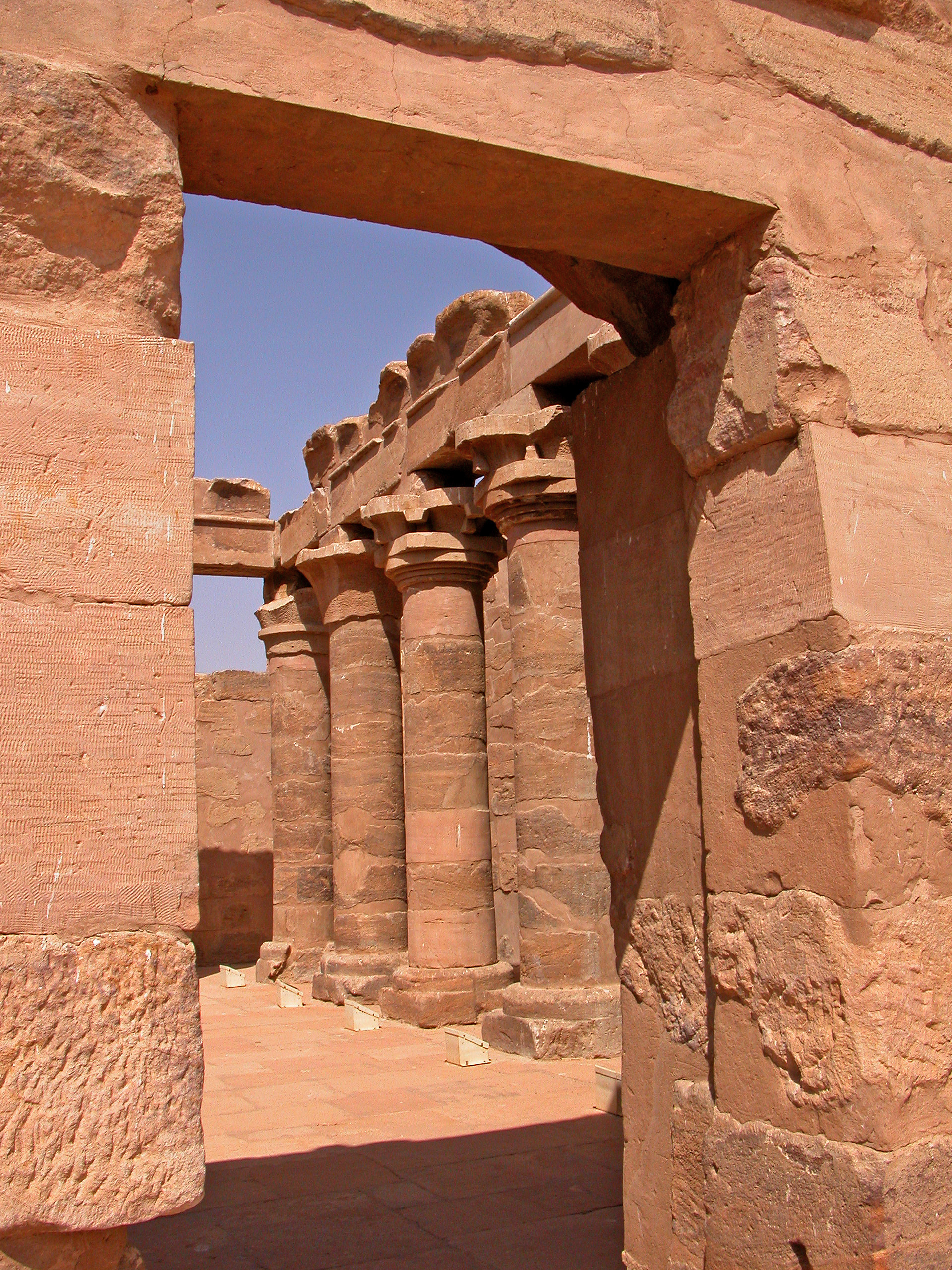 The inside courtyard of Maharraqa temple as viewed from its principal entrance. Maharraqa temple was a Roman era Egyptian temple in Lower Nubia which was built but never fully decorated with reliefs.